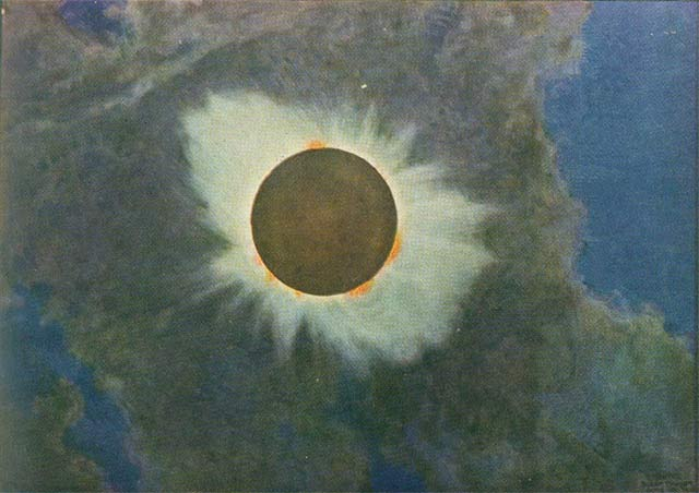 Total eclipse of the Sun, June 8, 1918. Print of eclipse painting by Howard Russell Butler (Butler died in 1934)